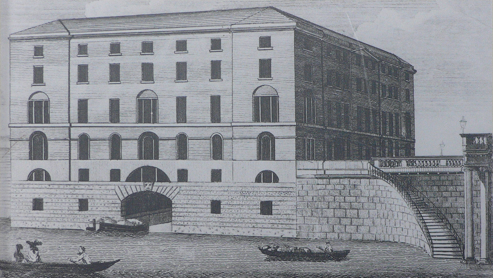 The steam-powered Albion Flour Mills, Bankside, England. Completed in 1786, it was destroyed by fire in 1791. This view has been linked to the fate of the Albion Flour Mills, which was the first major factory in London. Designed by John Rennie and Samuel Wyatt, it was built on land purchased by Wyatt in Southwark. This rotary steam-powered flour mill by Matthew Boulton and James Watt used grinding gears by Rennie to produce 6000 bushels of flour a week.